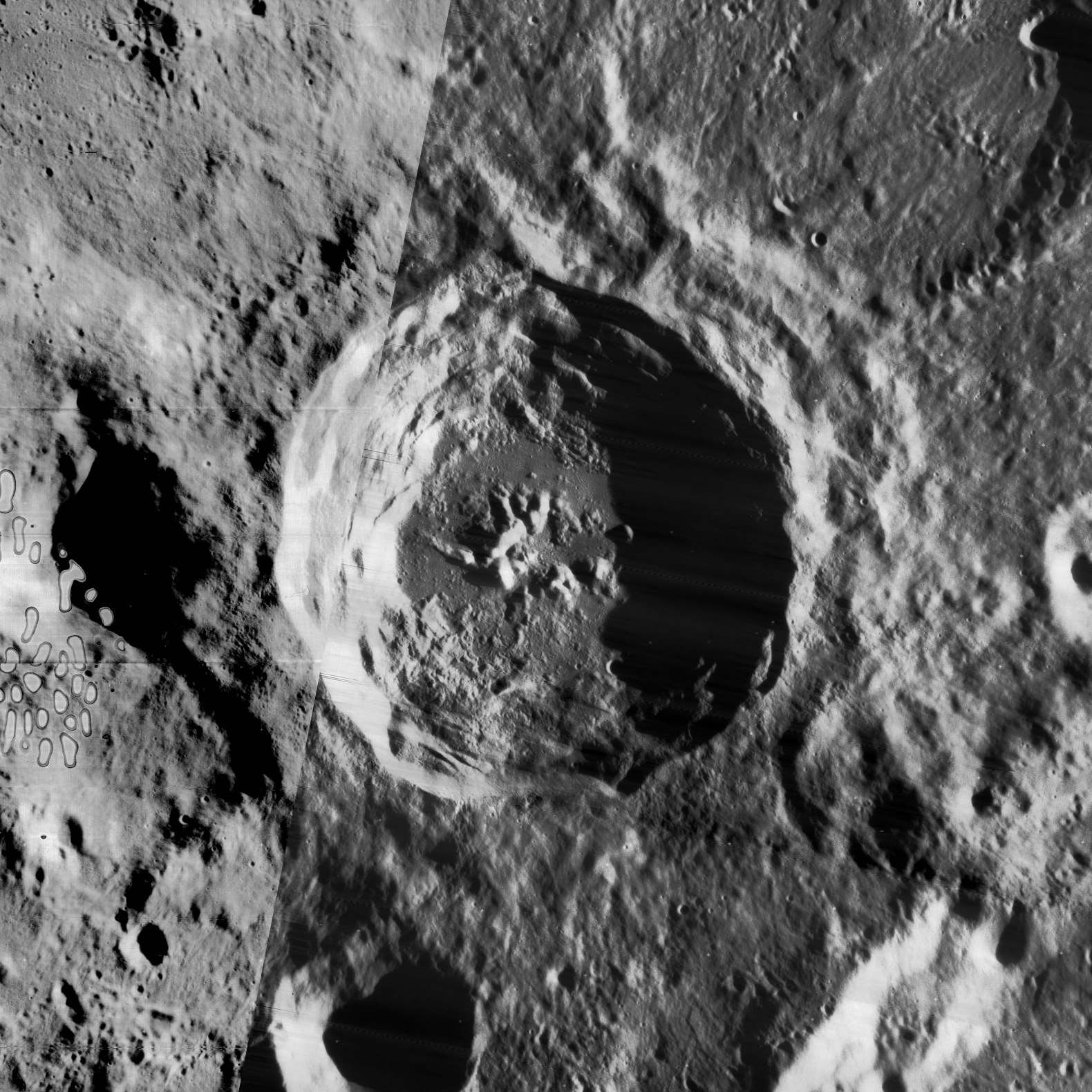 Mosaic showing Zucchius, on the moon. Blemishes on left edge are present on original.